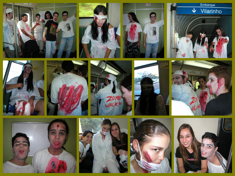 Going to Zombie Walk BH 2007 *BRAZIL* (from subway)